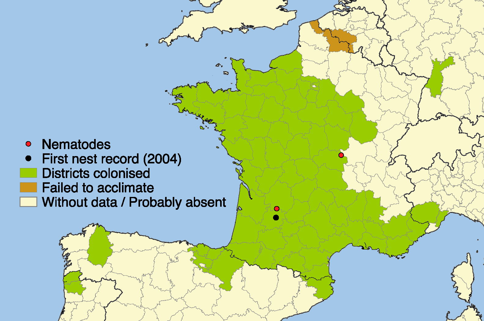 Figure 1 of paper: Current distribution of Vespa velutina. Distribution of the invasive yellow-legged Asian hornet Vespa velutina in Europe in 2014. Black spot: first occurrence of V. velutina in Europe. Red spots: localities where the nematodes have been found.